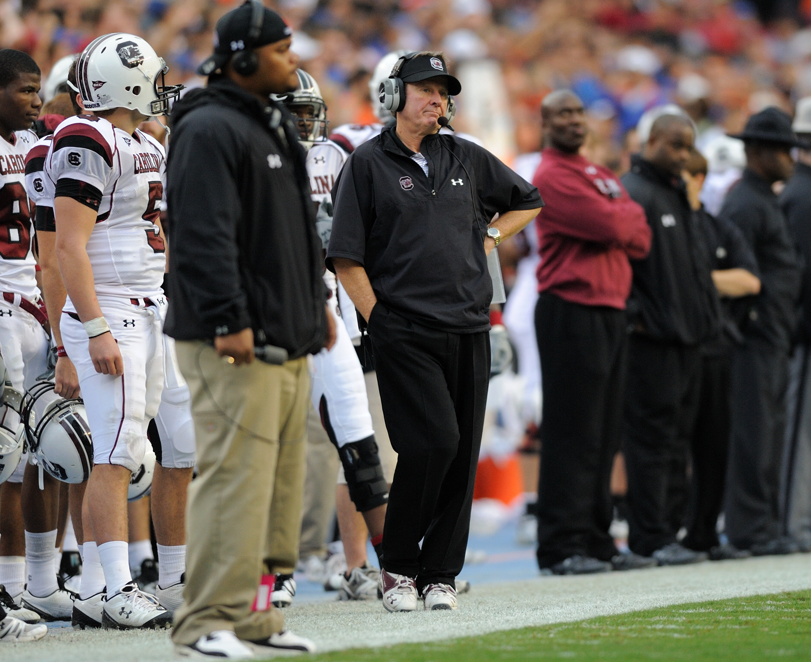 University of South Carolina head football coach Steve Spurrier stands on the sidelines during the Gamecocks' 2008 season game against the Florida Gators in Ben Hill Griffin, Jr. Stadium in Gainesville, Fla., on Nov. 15, 2008.